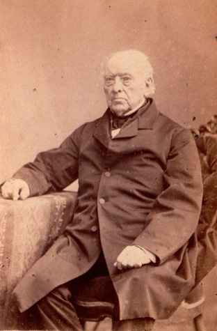 Andries de Wilde (Amsterdam, 21 november 1781 – Utrecht, 27 april 1865)